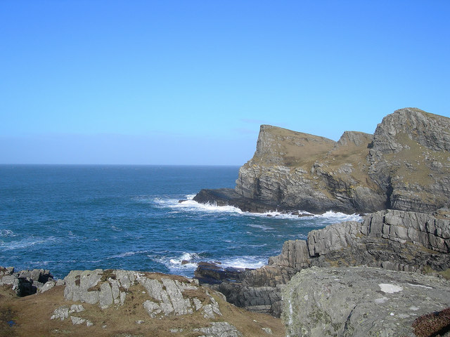 Near Rubha Lamanais Islay's spectacular Atlantic coast on a fine February morning.